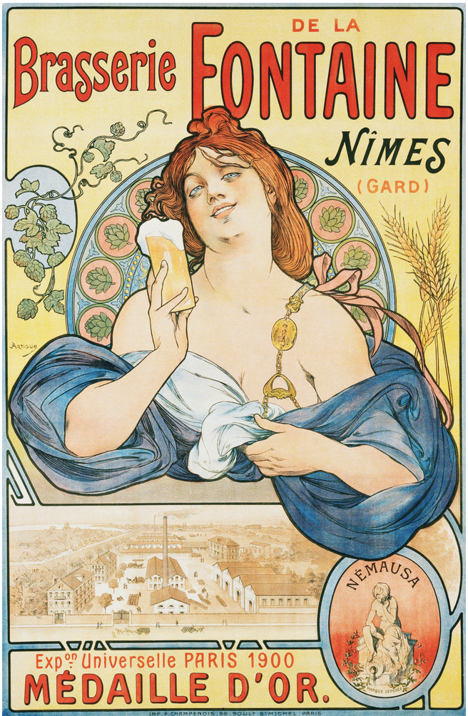 Lithographic poster Brasserie de la Fontaine, Nîmes (Gard), médaille d'or 1900..., designed by Albert-Emile Artigue, printed in Paris, by F. Champenois.